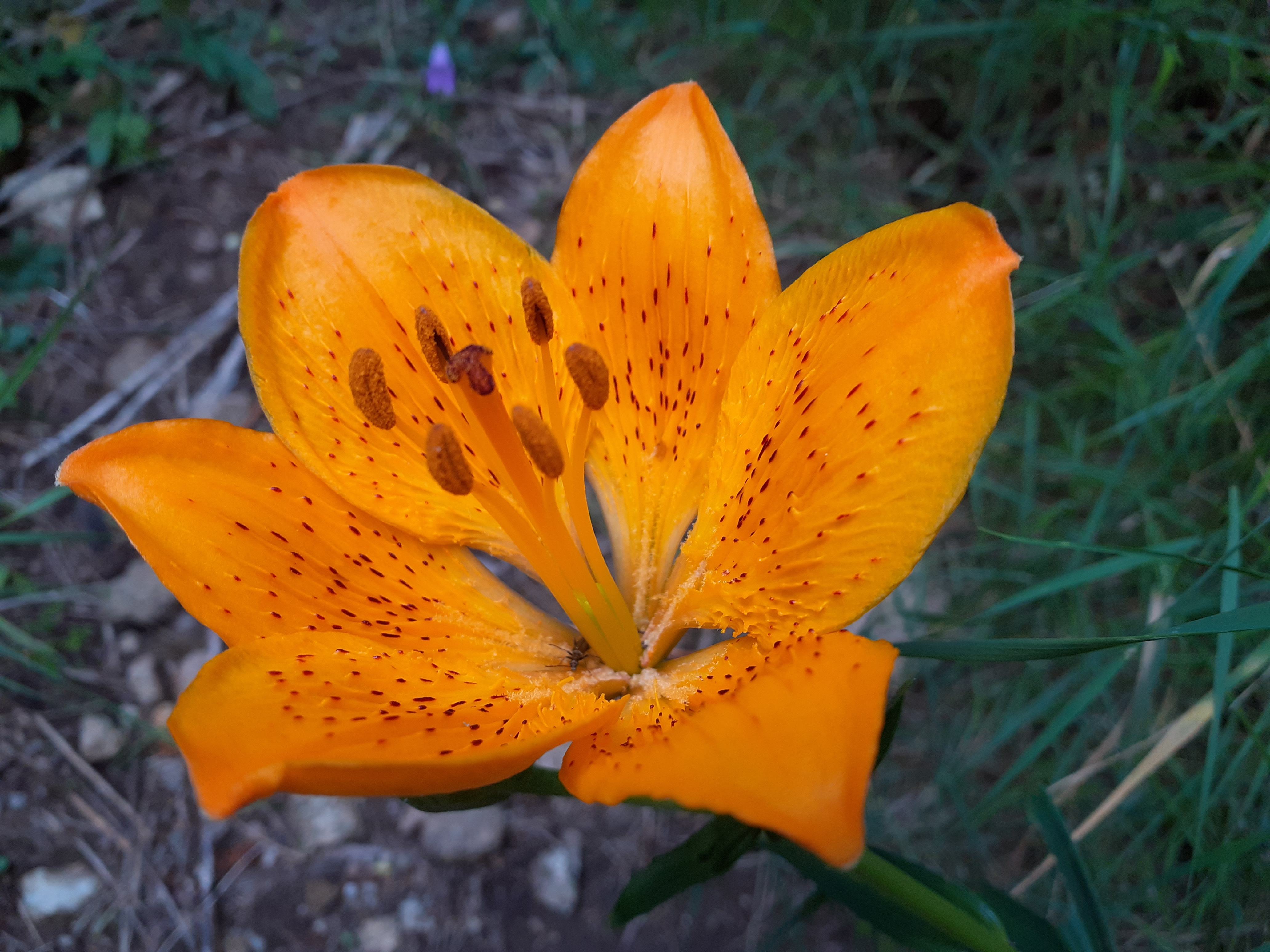 elba island